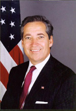 Official U.S. Department of State portrait of United States ambassador to the Dominican Republic Hans Hertell